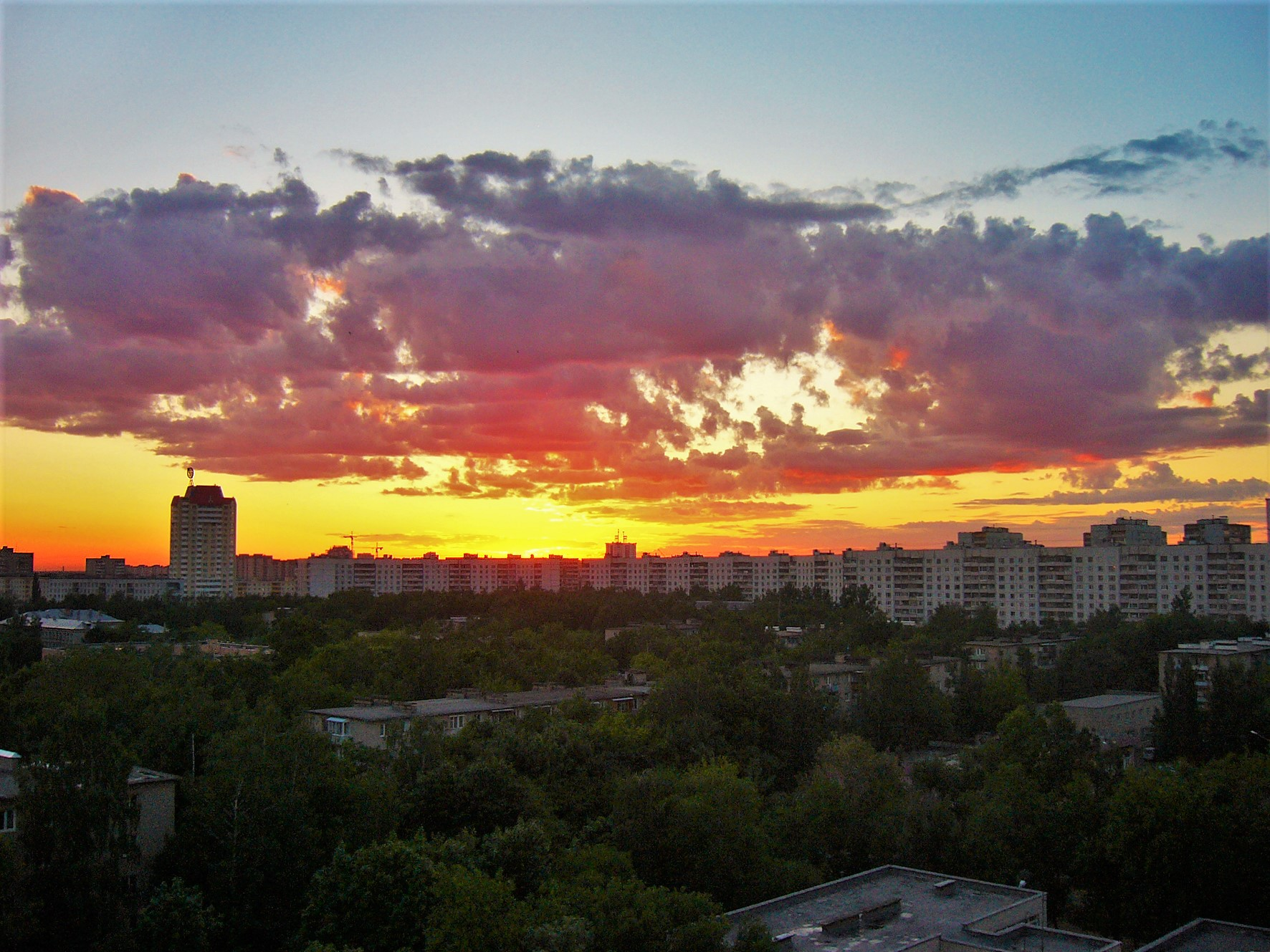 Koroljov city, near Moscow, under sunset and after rain.